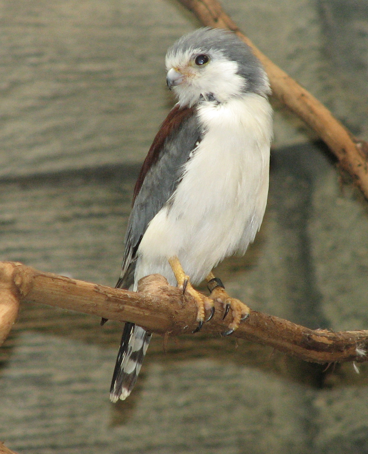 African Pygmy Falcon - Polihierax semitorquatus